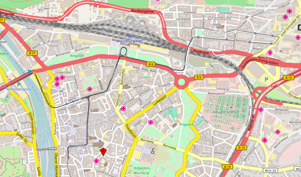 Map of Würzburg, focusing on Berliner Ring